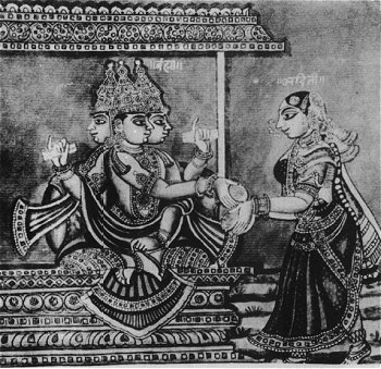 Lord Brahma and Adhiti - 19th Century Illustration Saraswati Mahal Library Collection, Tanjore